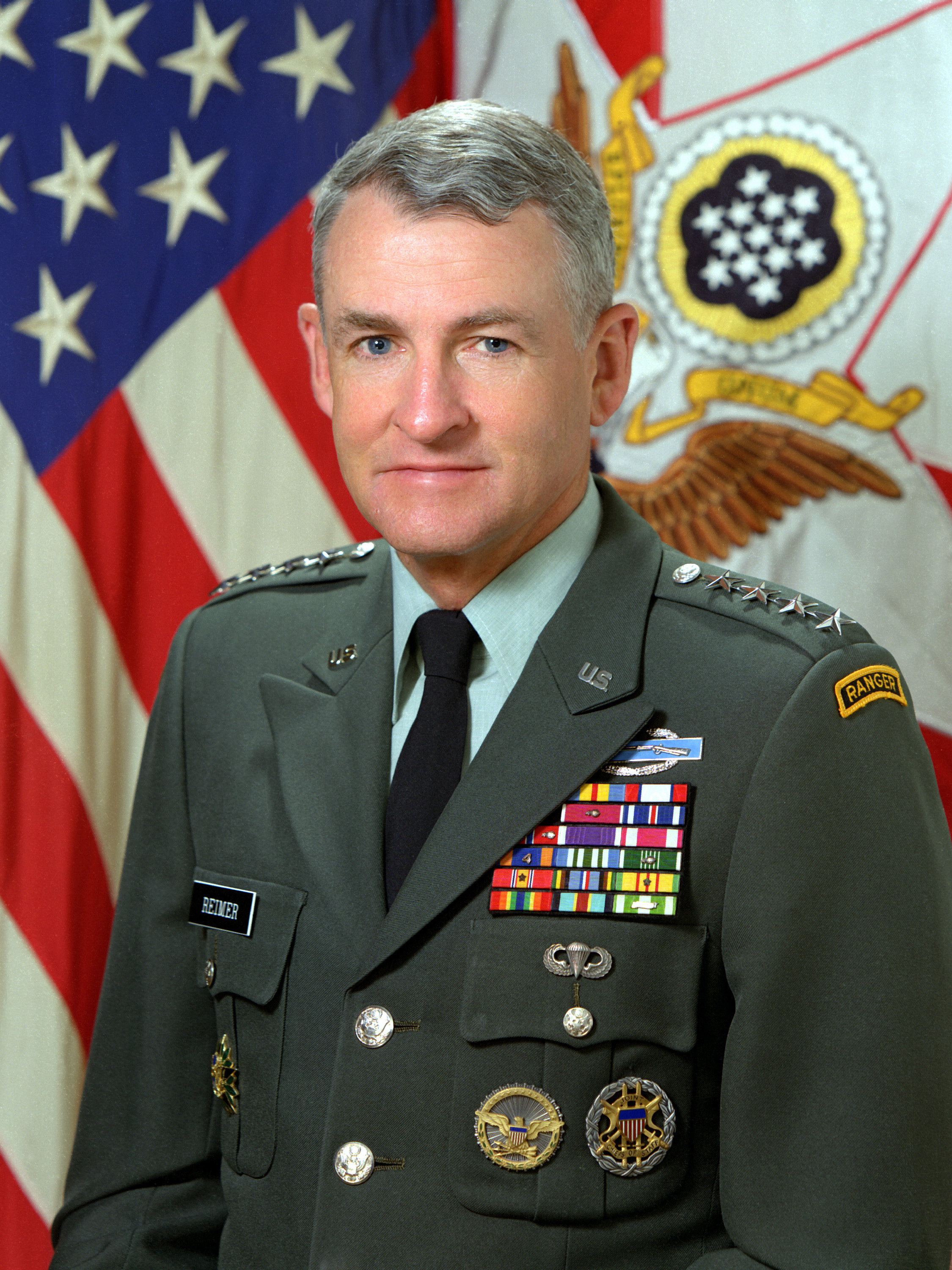 Dennis Reimer, former Chief of Staff of the U.S. Army.